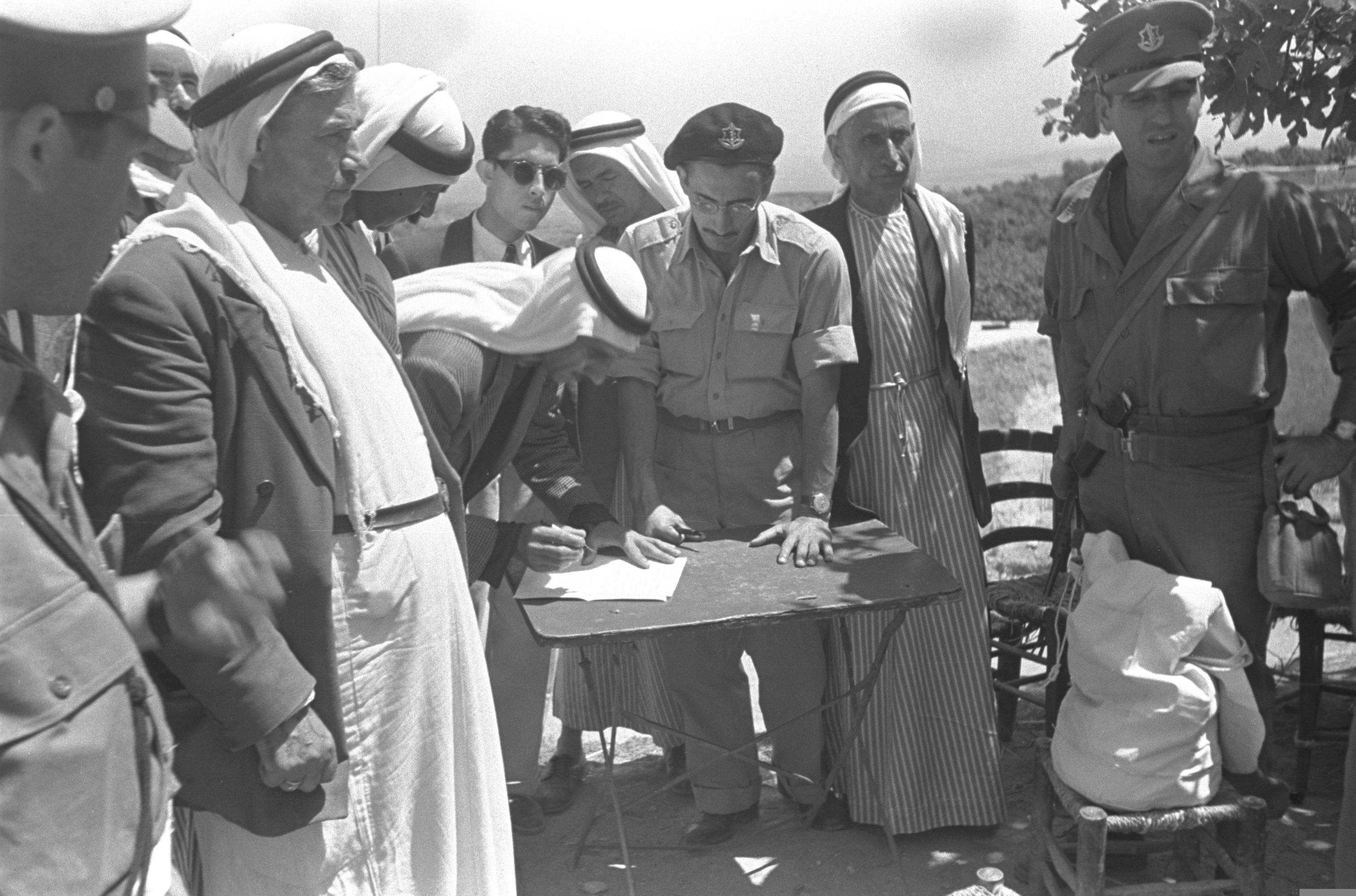 Original Description: WAR OF INDEPENDENCE. MILITARY GOVERNMENT. ARAB CHIEF OF UM EL FAHM SIGNS OATH OF ALLEGIANCE TO ISRAELI GOVERNMENT.